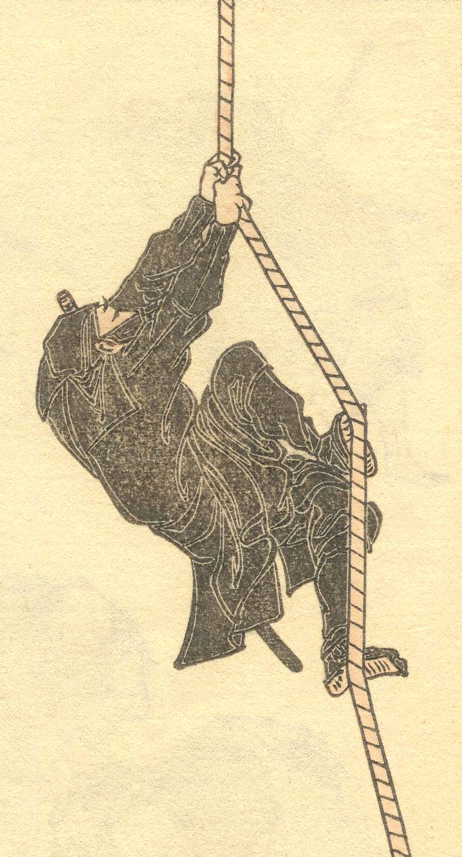 Page from volume 6 of the 15-volume Hokusai Manga (sketches collection) Cropped